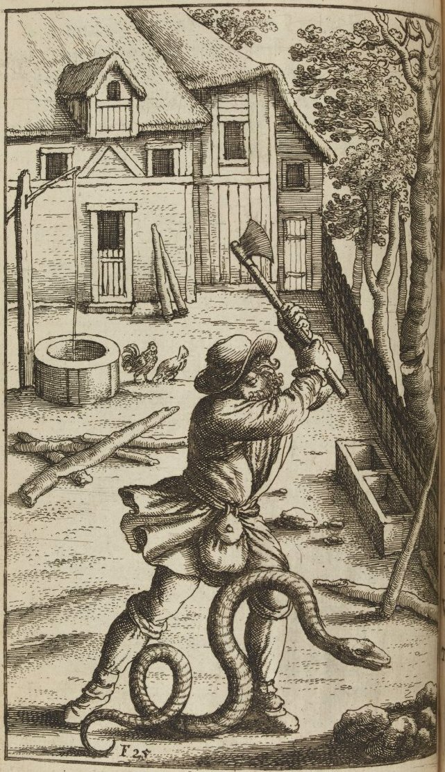 "The fable of the peasant and the snake; a peasant raising an axe above a large, coiling snake, in the fenced yard of a farmhouse seen behind; tree partly cut through outside the fence at right, hens by a well in the background at left."